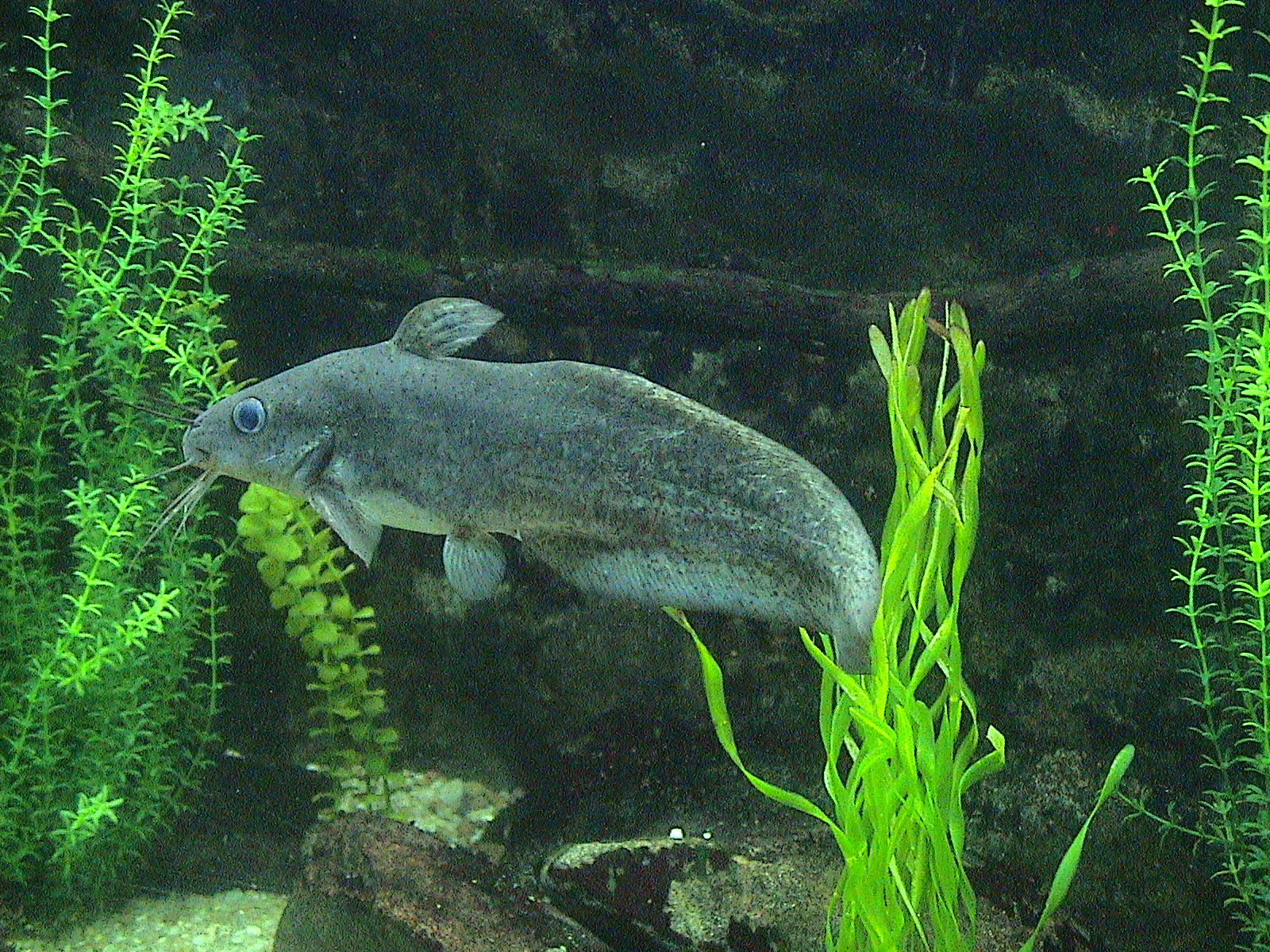 Tandanus tandanus, Eeltail catfish, Adelaide Zoo